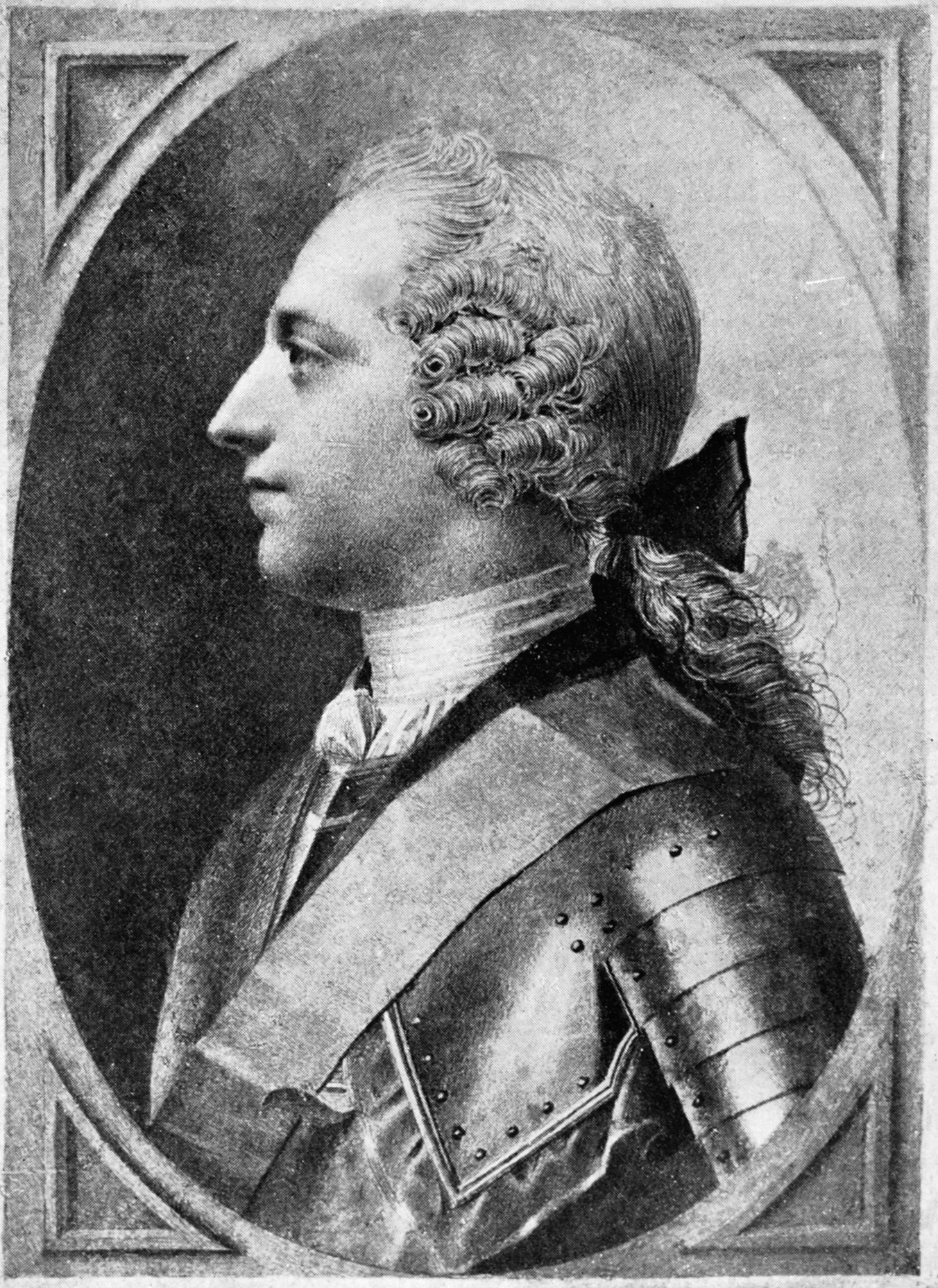 Portrait- Prince Charles Edward Stuart (1720-1788) Portrait, young man in armor with white wig and bow in hair, elbows up